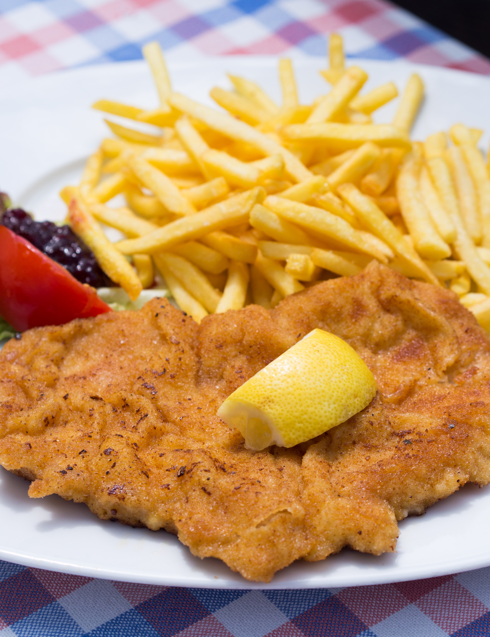 Pork Wiener Schnitzel at the Gaislachalm, Sölden, Tyrol